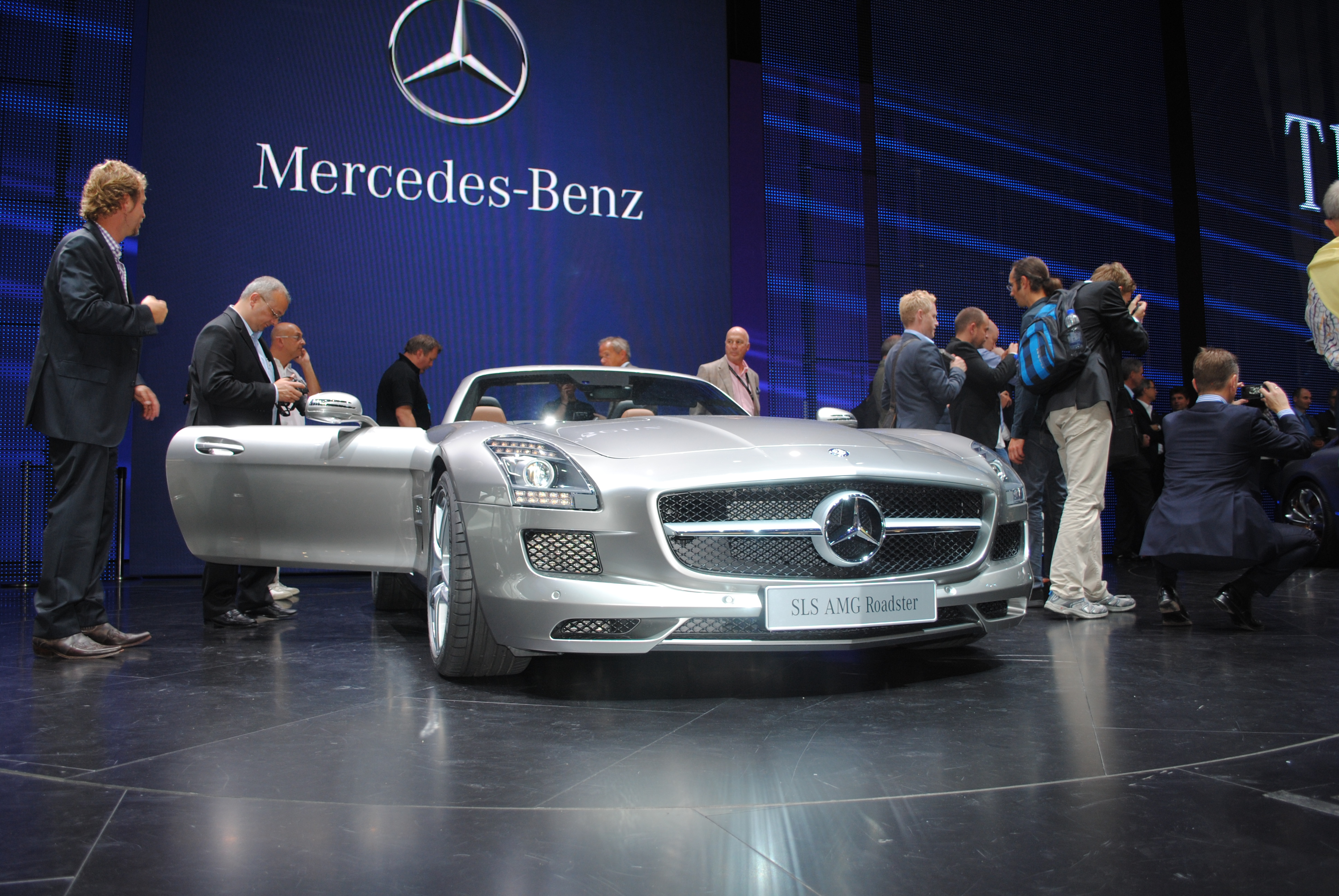 More photos and info